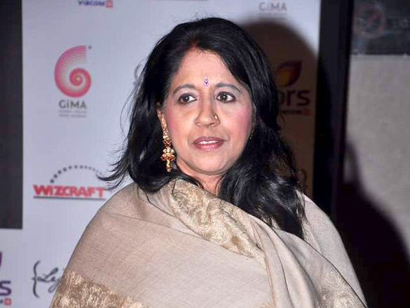 Kavita Krishnamurthy at GIMA's tribute to Jagjit Singh